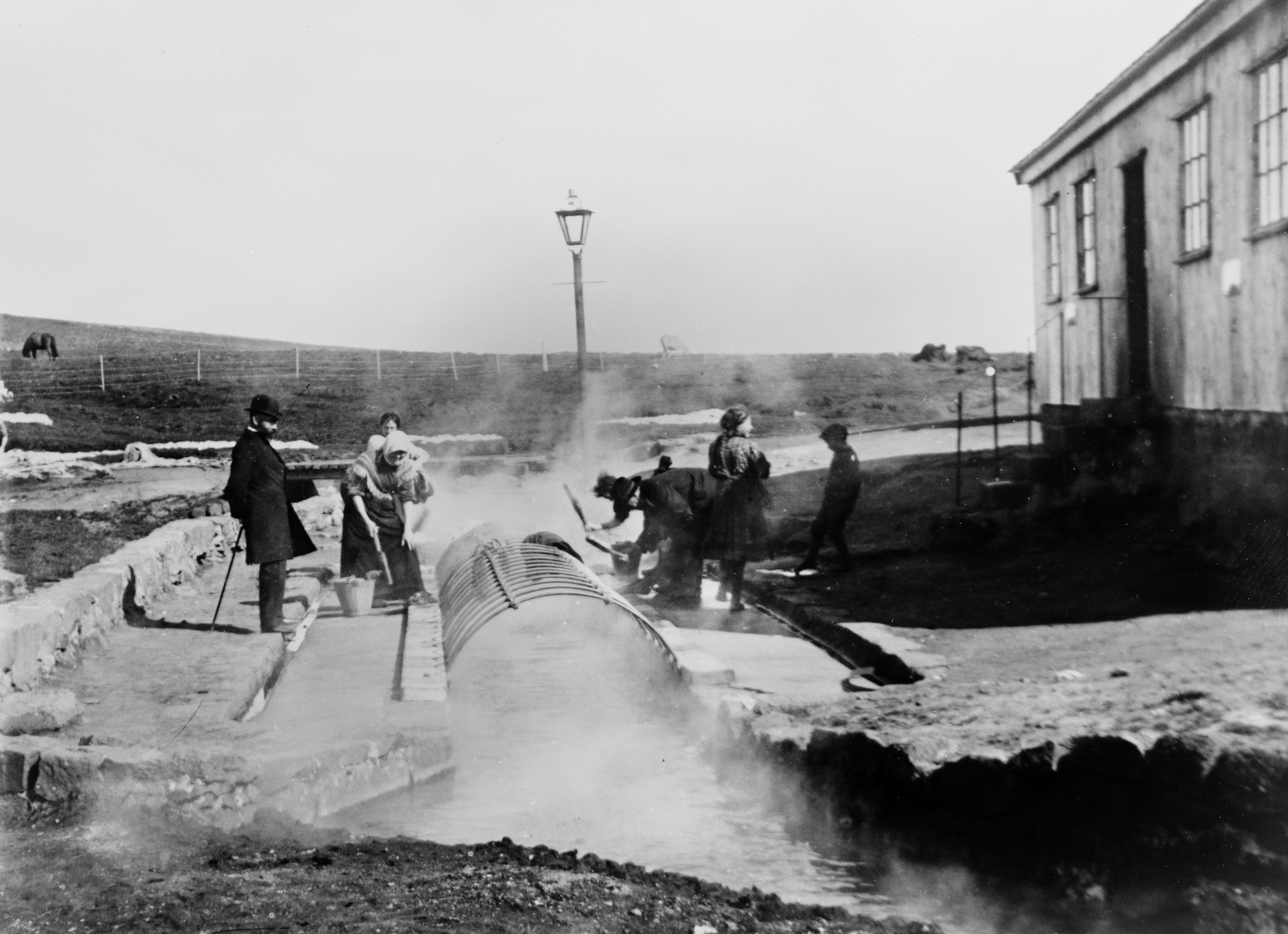 Around 1911, women washing clothes in Laugardalur in Reykjavík. A well dressed man with a ball hat stands by.